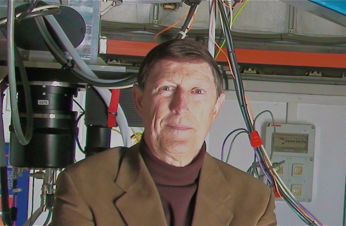 Dr. Robert Williams (2017)